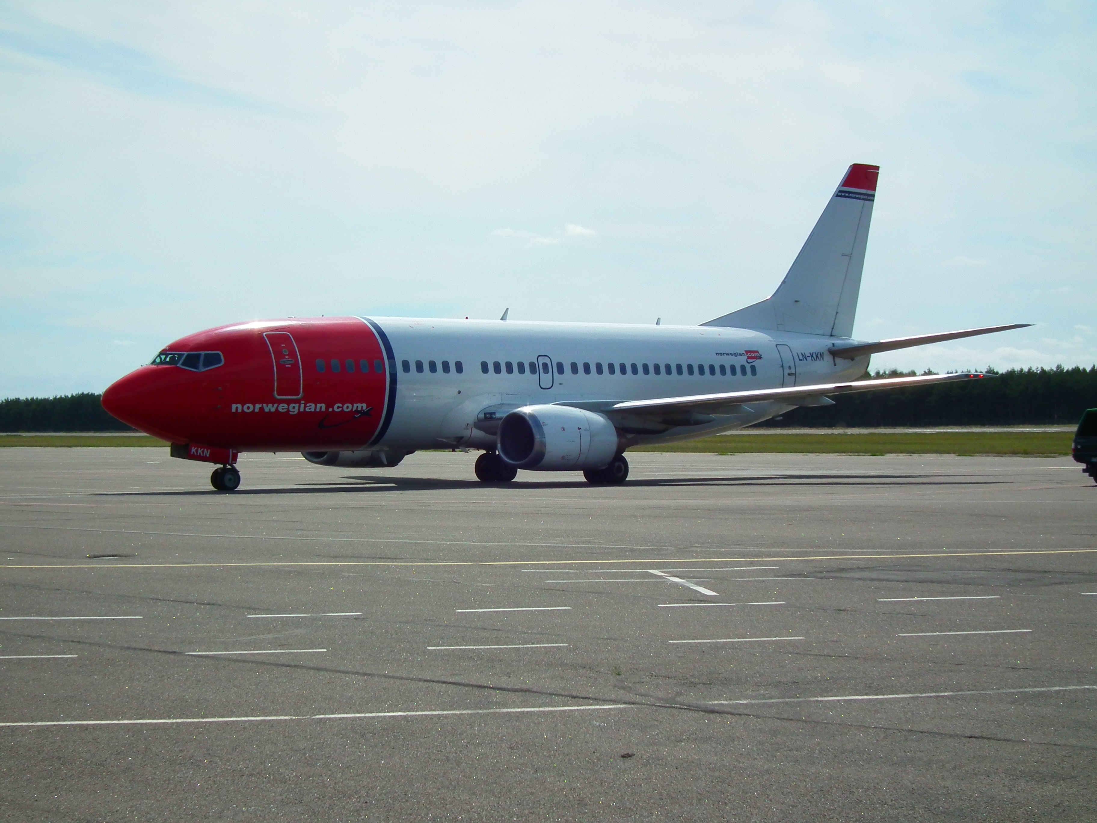 Norwegian Boeing 737-300 taxing at EYPA